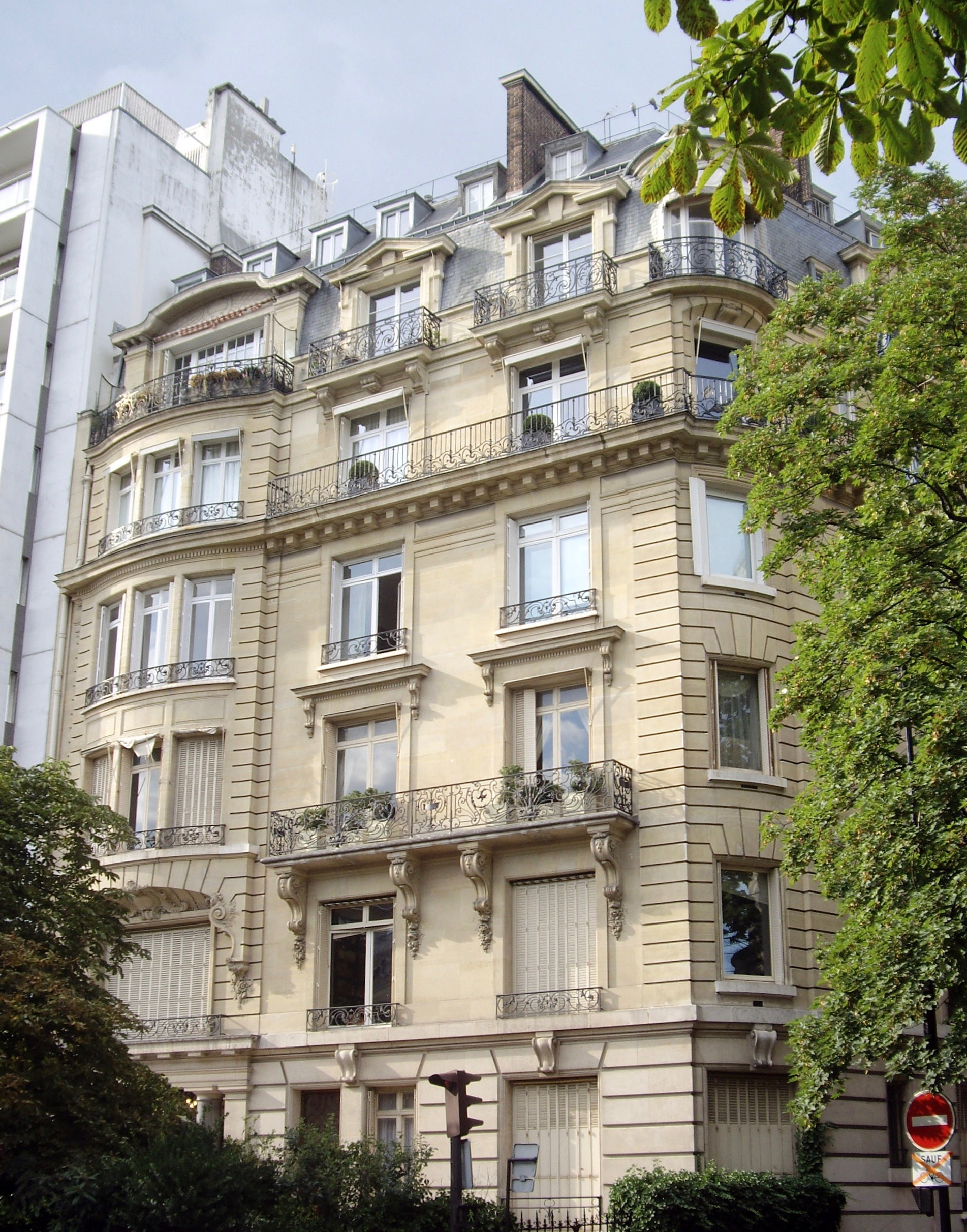 Last residence of Maria Callas, 36 Avenue Georges-Mandel, Paris 16th.